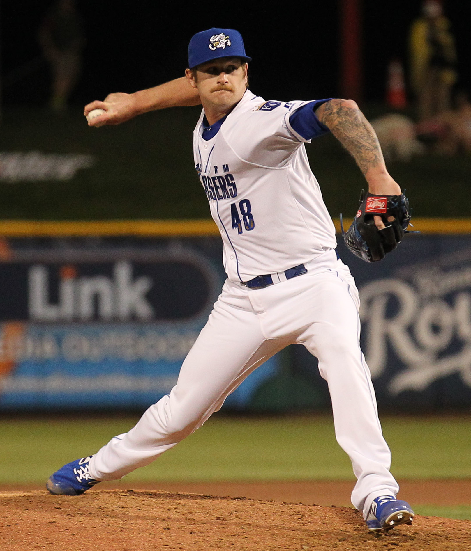 Ben Lively delivers a pitch for the Omaha Storm Chasers during a 2019 game at Werner Park in Nebraska.